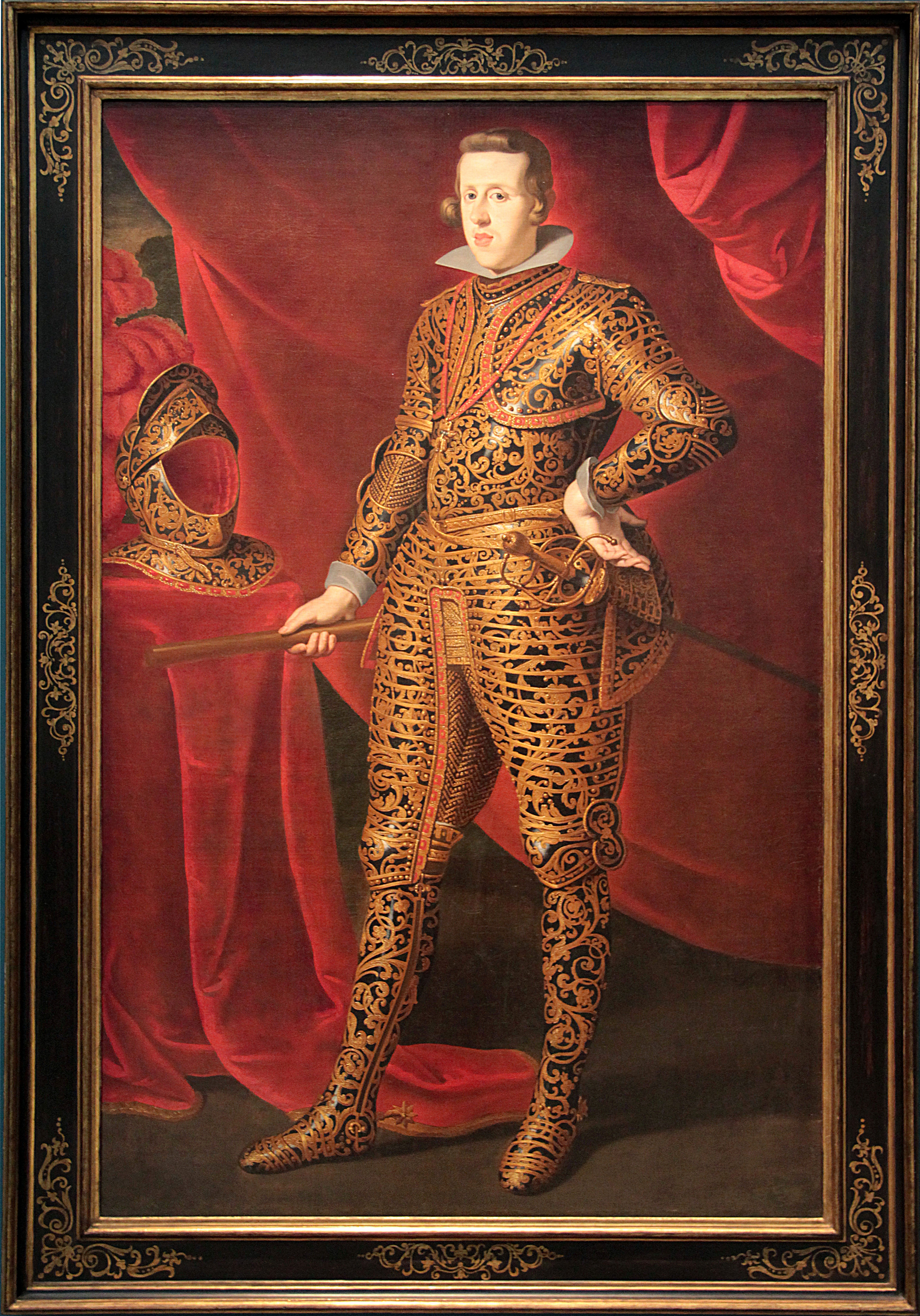 "Philip IV of Spain", oil on canvas ca 1627-1628, part of the Metropolitan Museum of Art in New York, photographed during the exhibition " Rubens et son Temps " (Rubens et son Temps Rubens and His Time) in the Louvre-Lens Museum.